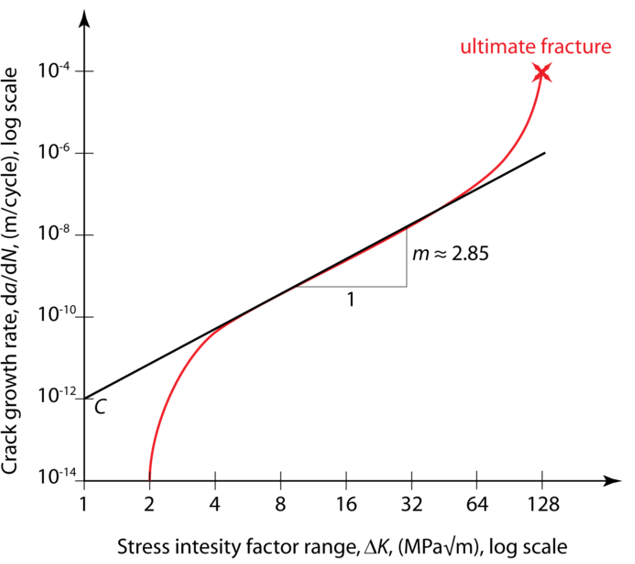 Paris law